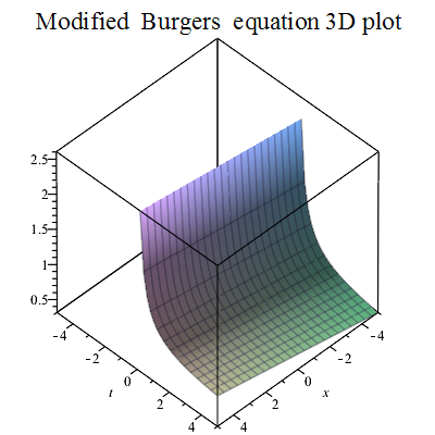 Modified Burgers equation 3D plot